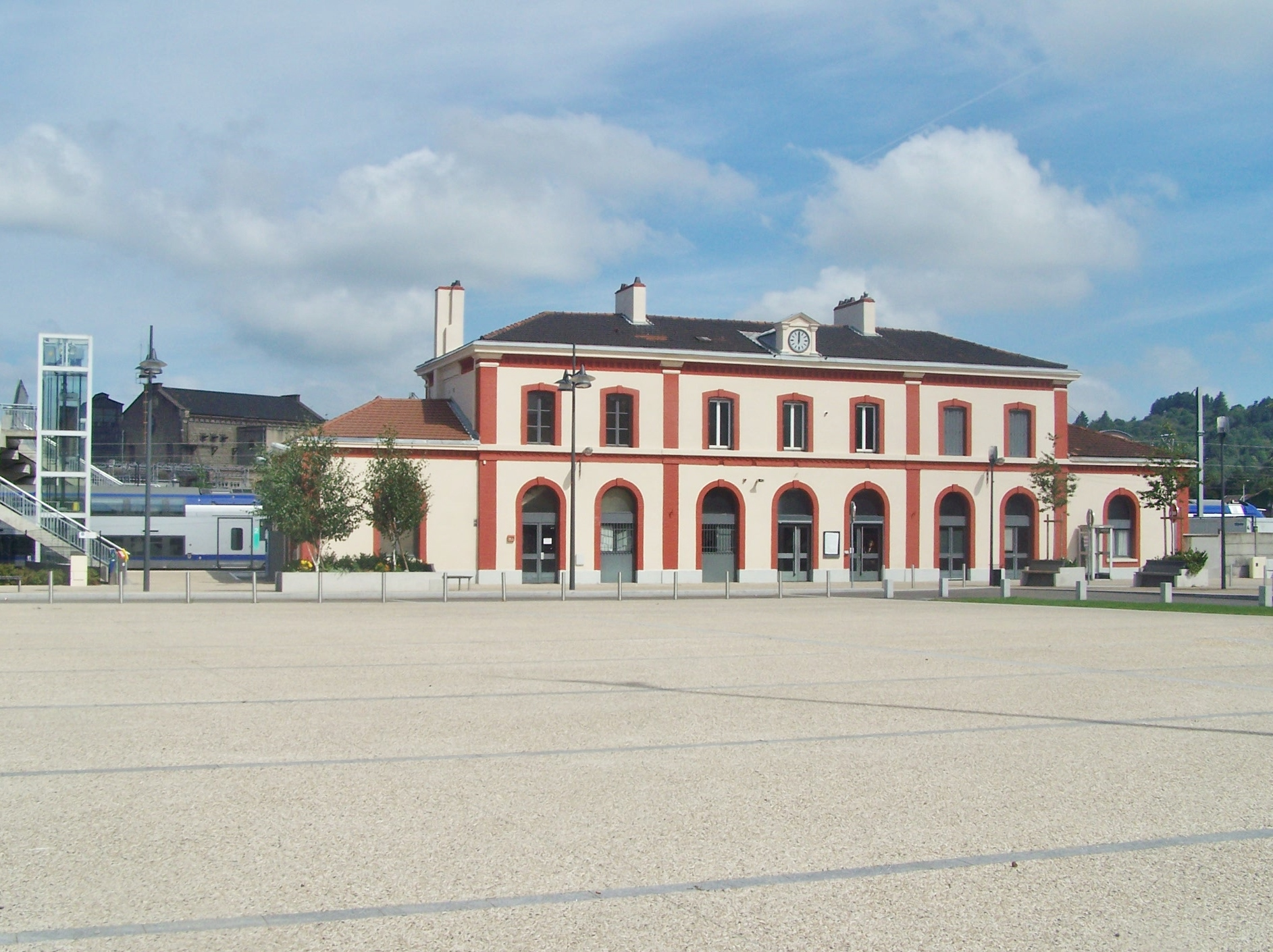 Sight of the Firminy railway station, in Loire, France.